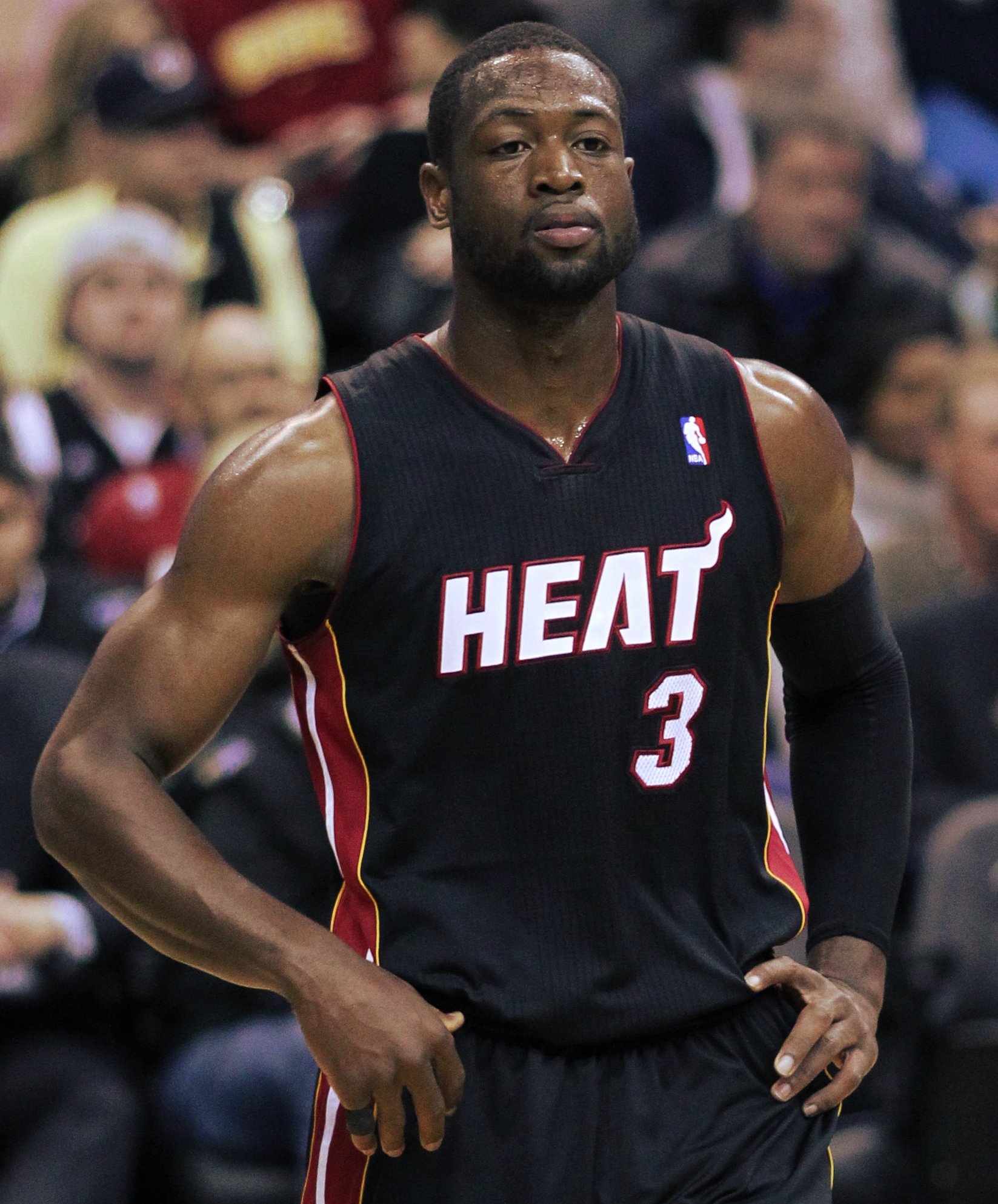 Dwyane Wade: Wizards v/s Heat 03/30/11